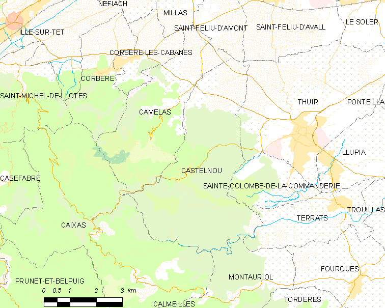 Map of French municipality